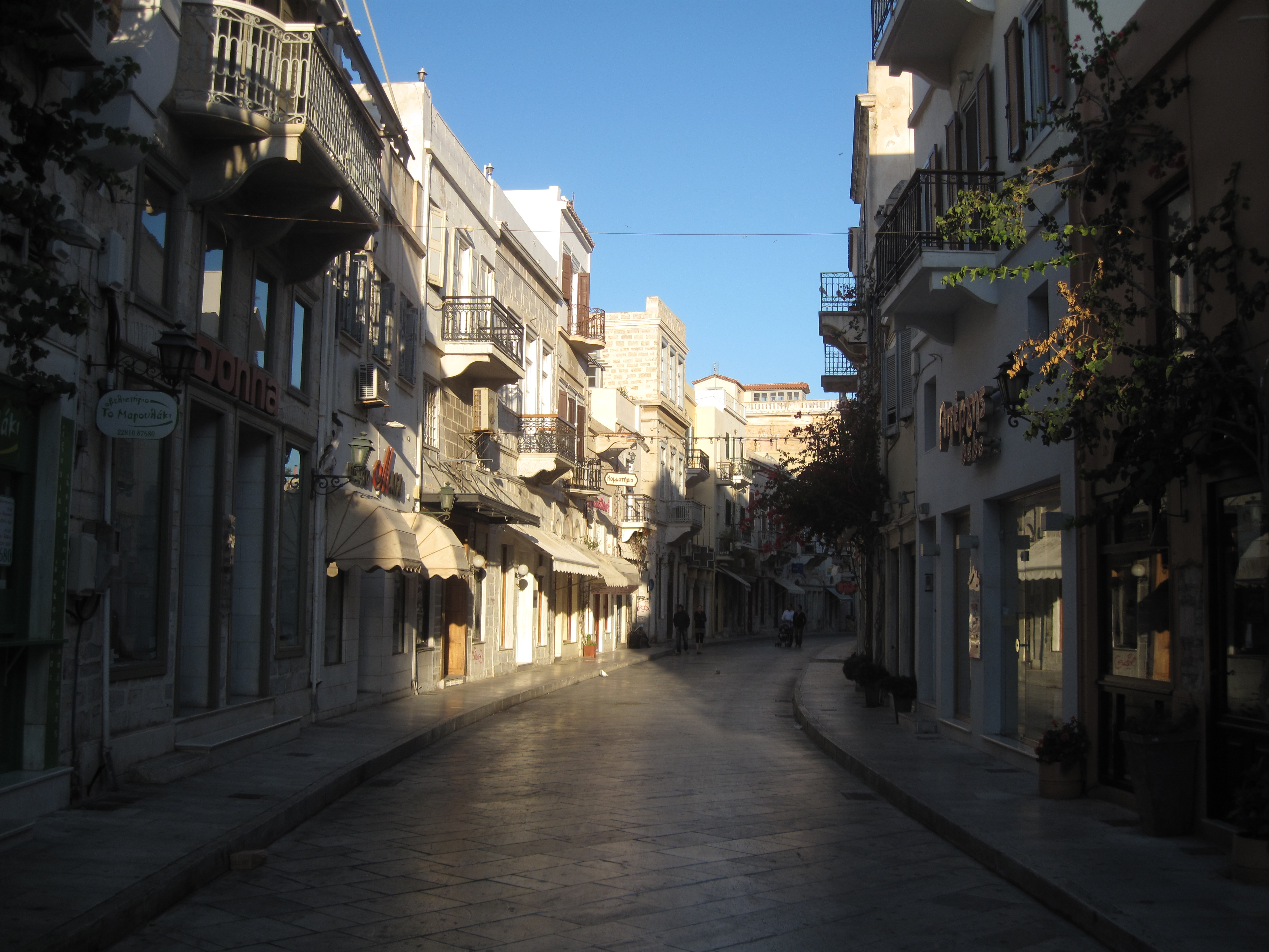 One of the central streets of Ermoupoli